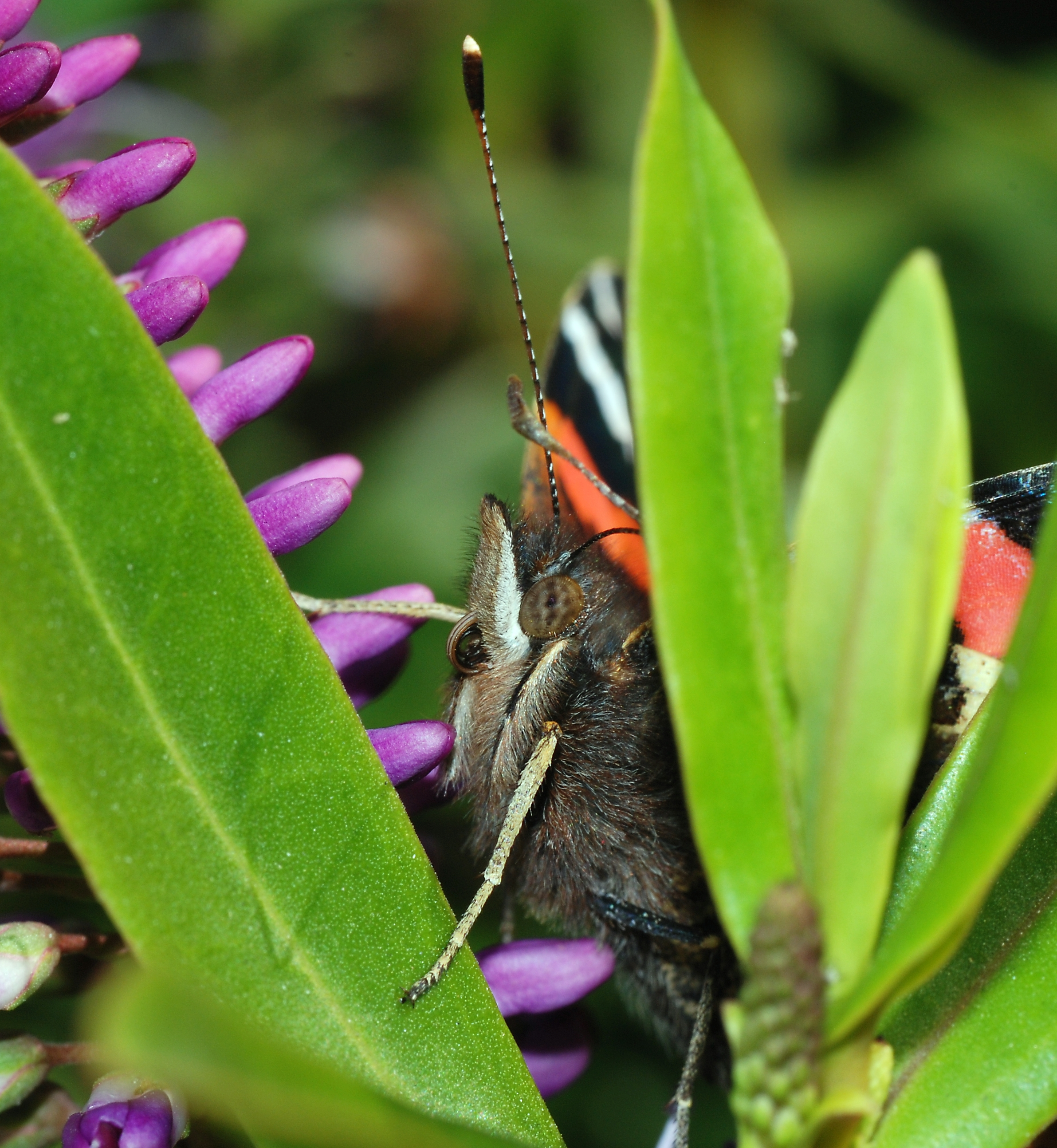 A Red Admiralty butterfly peeping from behind a Hebe x fransciscana